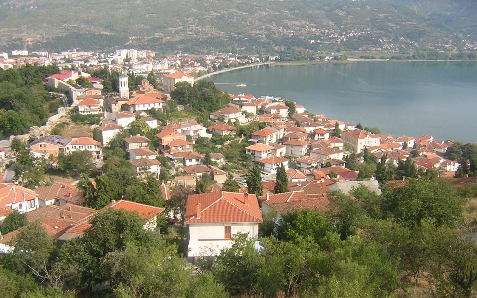 A view of Ohrid from the fortress of Samuil.